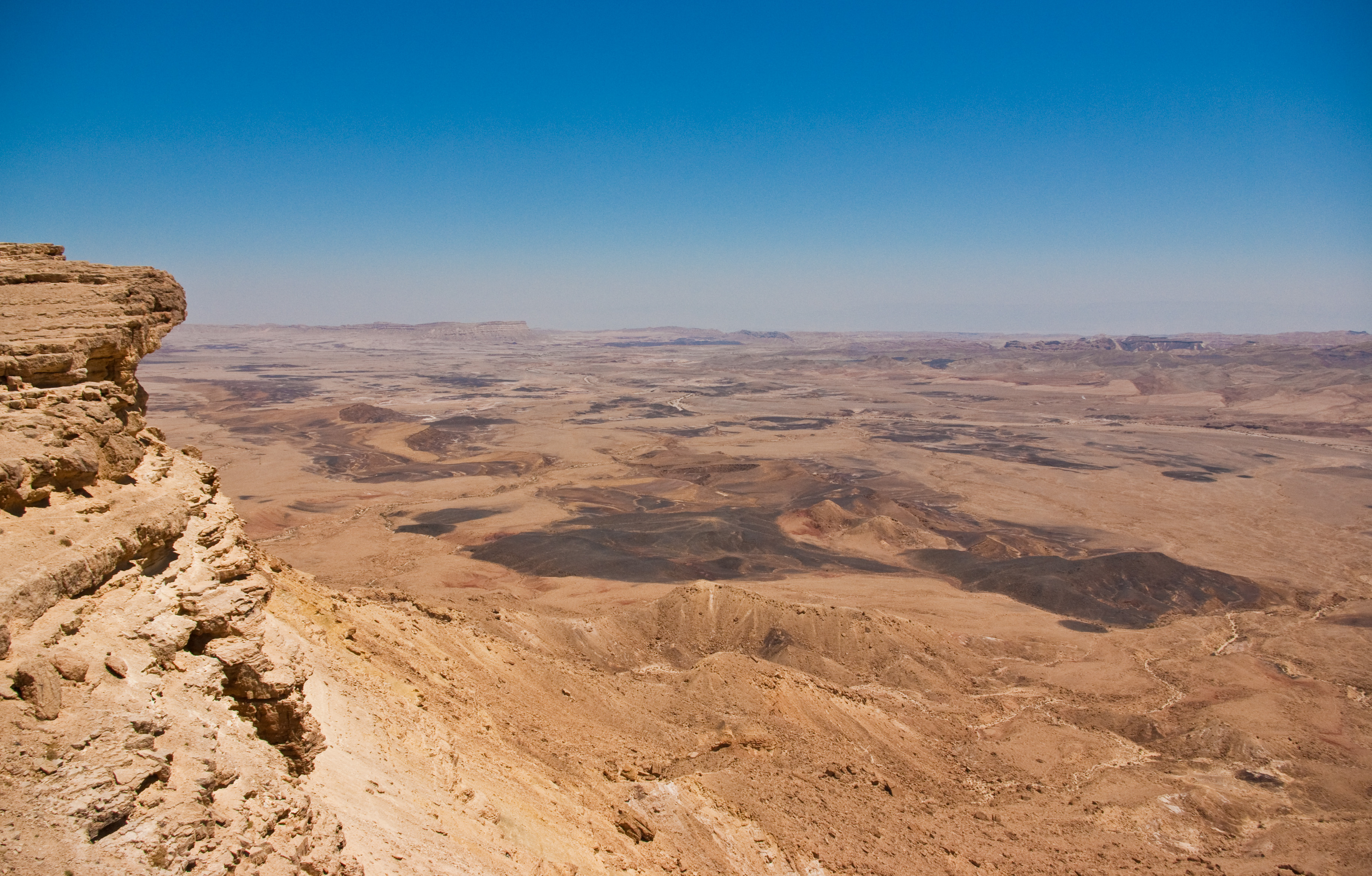 Views of Makhtesh Ramon from Mitzpe Ramon